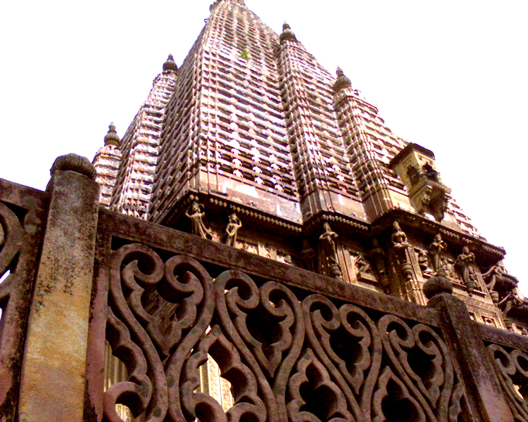 Old Durga Temple, Banaras